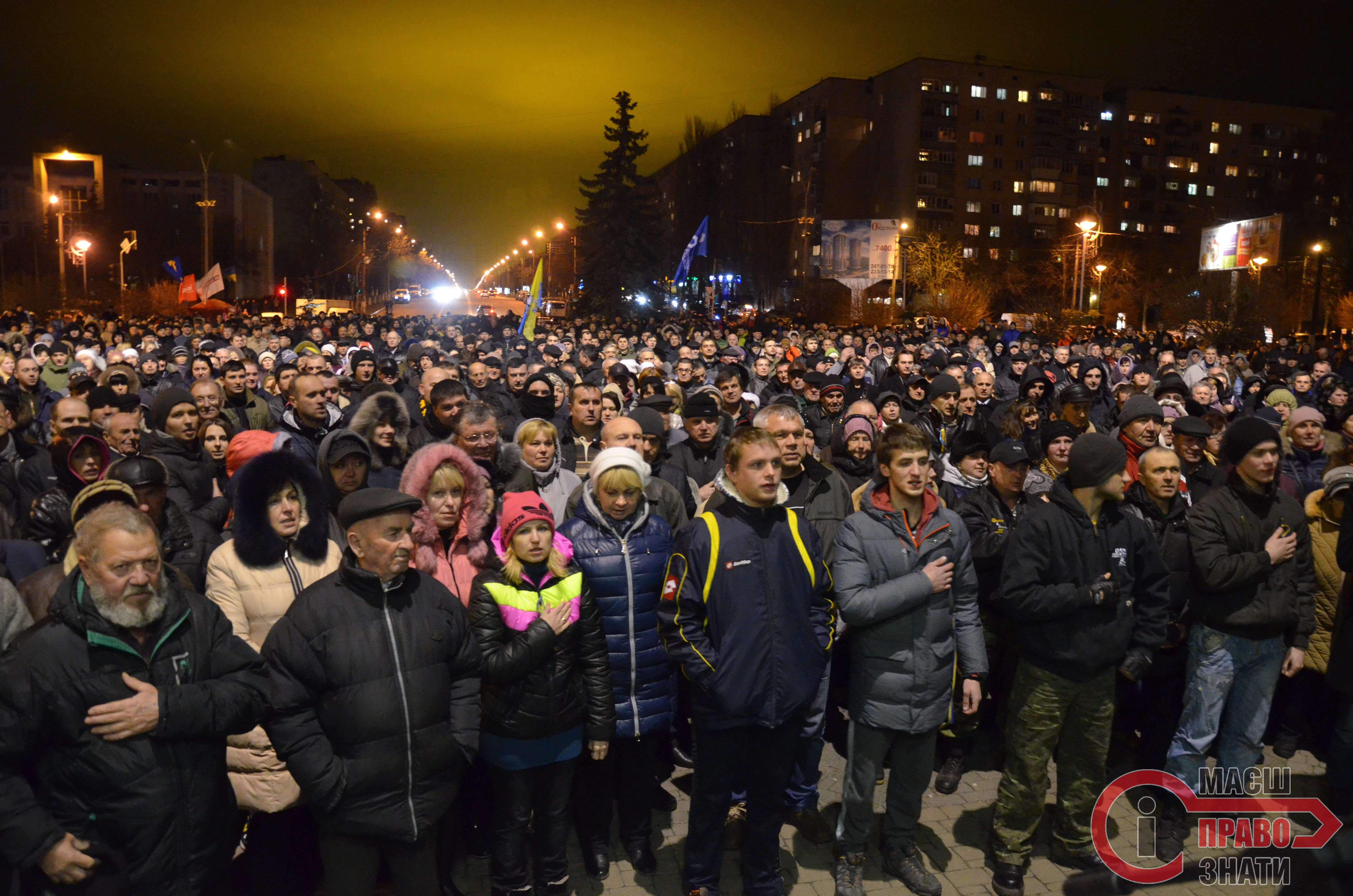 Veche on Svobody sq. in Brovary demanding to dismiss the mayor Ihor Sapozhko. Proof of License: [2].